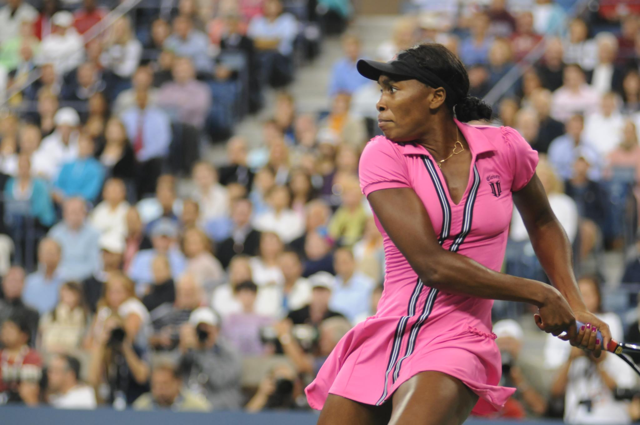 Venus Williams plays Vera Dushevina on the opening day of the US Open 2009.